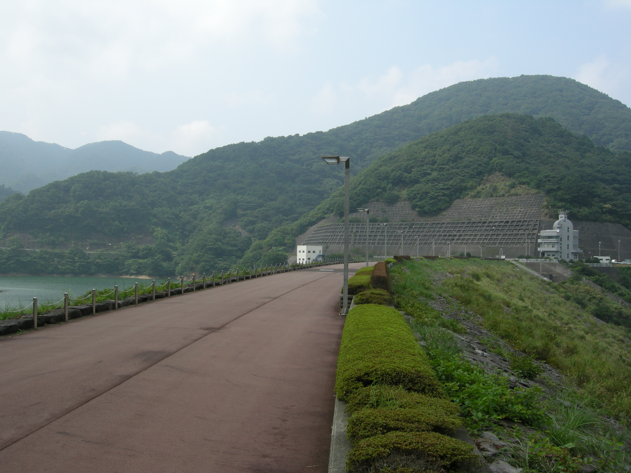 Okuno Dam, Ito city, Shizuoka-pref, Japan. Photo by me.